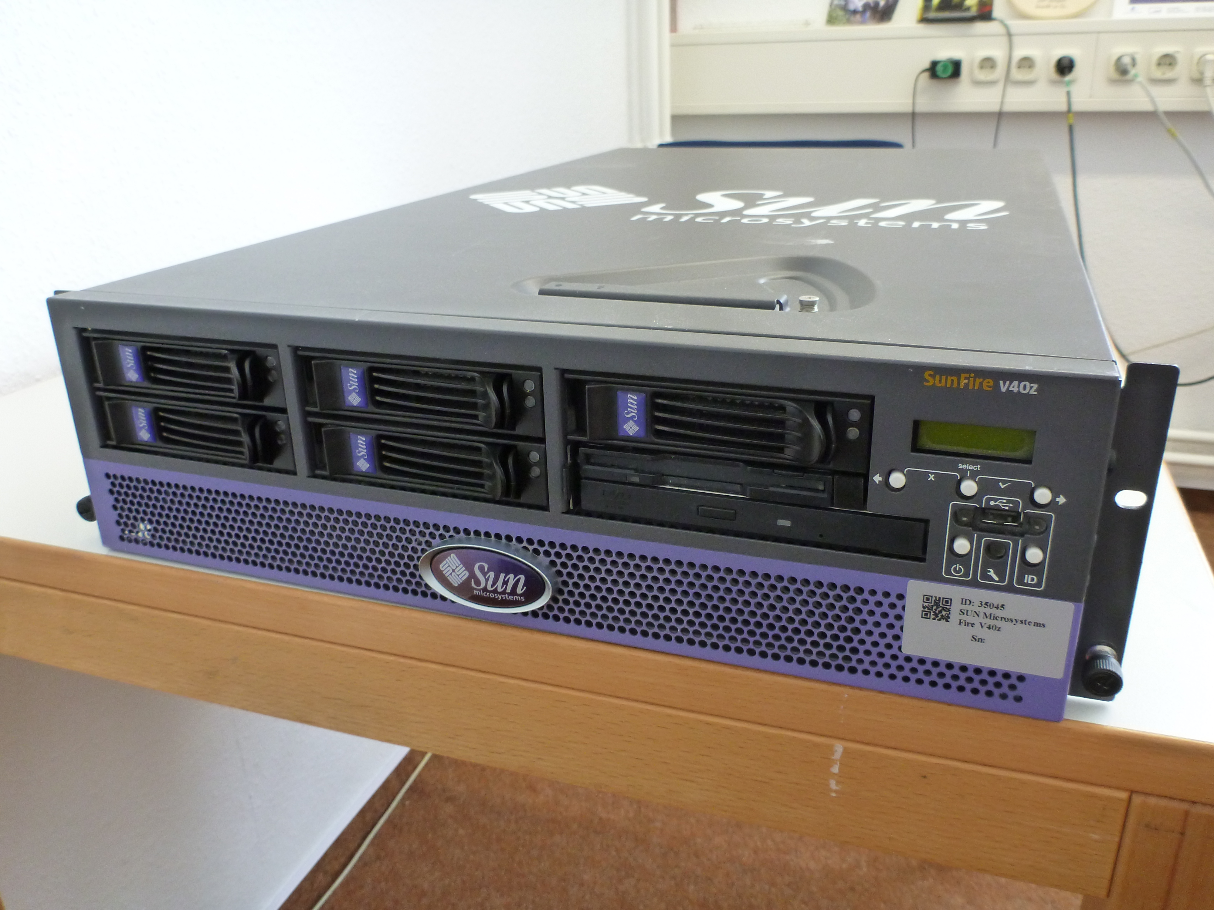 Sun Microsystem Server SunFire V40z with Opteron CPU